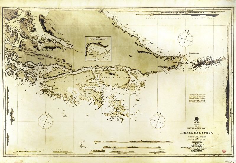 The south-eastern part of Tierra del Fuego with Cape Horn, as surveyed by the H.M.S. Beagle in 1830-34. The original map is in tones of gray; the yellowish colors come from increasing the contrast prior to uploading the map and were left for better visibility map reads in the lower right (among others): "The South-Eastern Part of Tierra del Fuego with Staten Island,Cape Horn and Diego Ramirez Islands. Surveyed by Captain Robert Fitz Roy R.N. and the Officers of H.M.S. Beagle. 1830-1834" Depending on the intended use, this map in higher resolution might be obtained from the source or the uploader (see below).